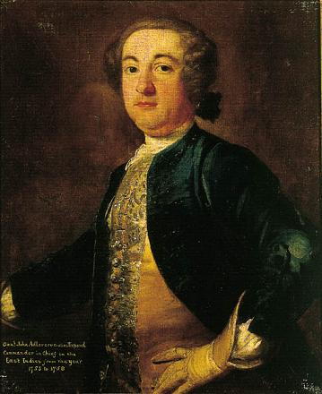 Portrait of General John Adlercron († 1766)